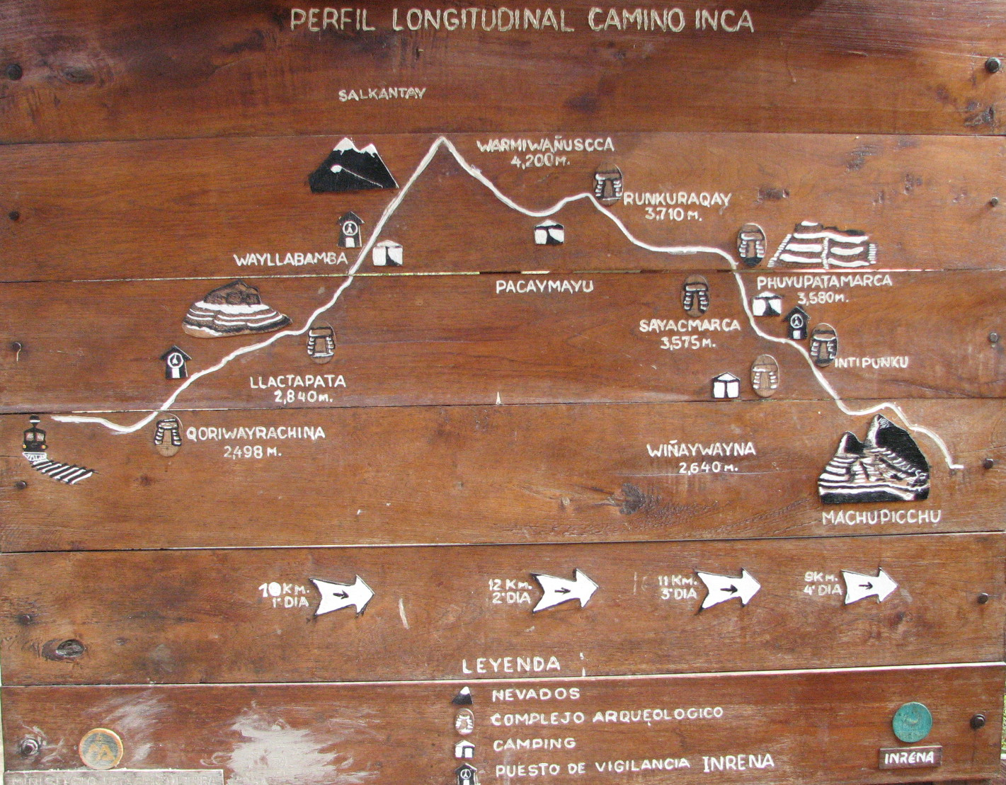 Steve Pastor August 2008